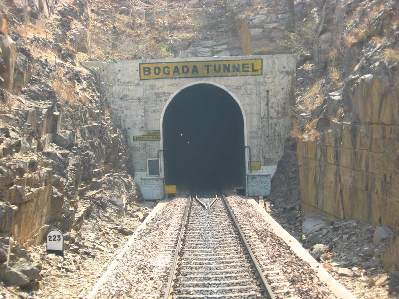 Own work and photograph,Cannon-550 digital camera